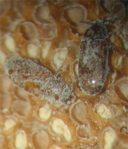 Pharaxonotha esperanzae, adults on dissected Microcycas' microsporofils, Havana Cuba. Shot with digital camera, framed and reduced resolution version